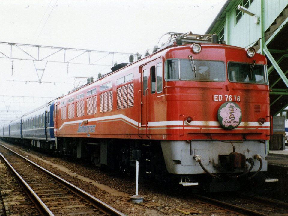 Limited Express Train "Sakura" at Sasebo Station